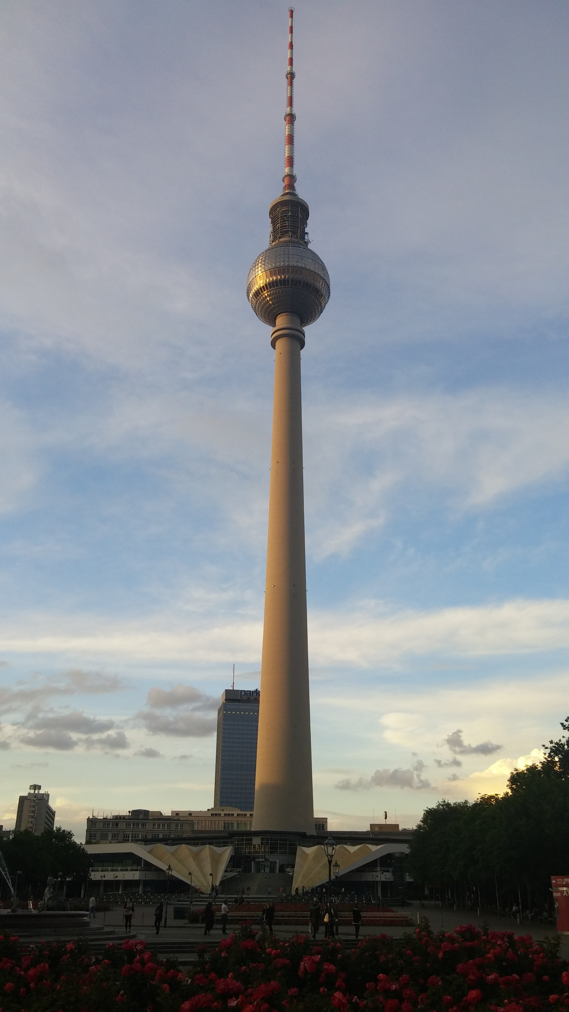 A view of Fernsehturm Berlin from the southwest.